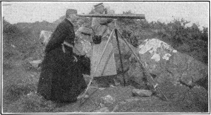 MONTENEGRIN GENERAL WATCHING BATTLE